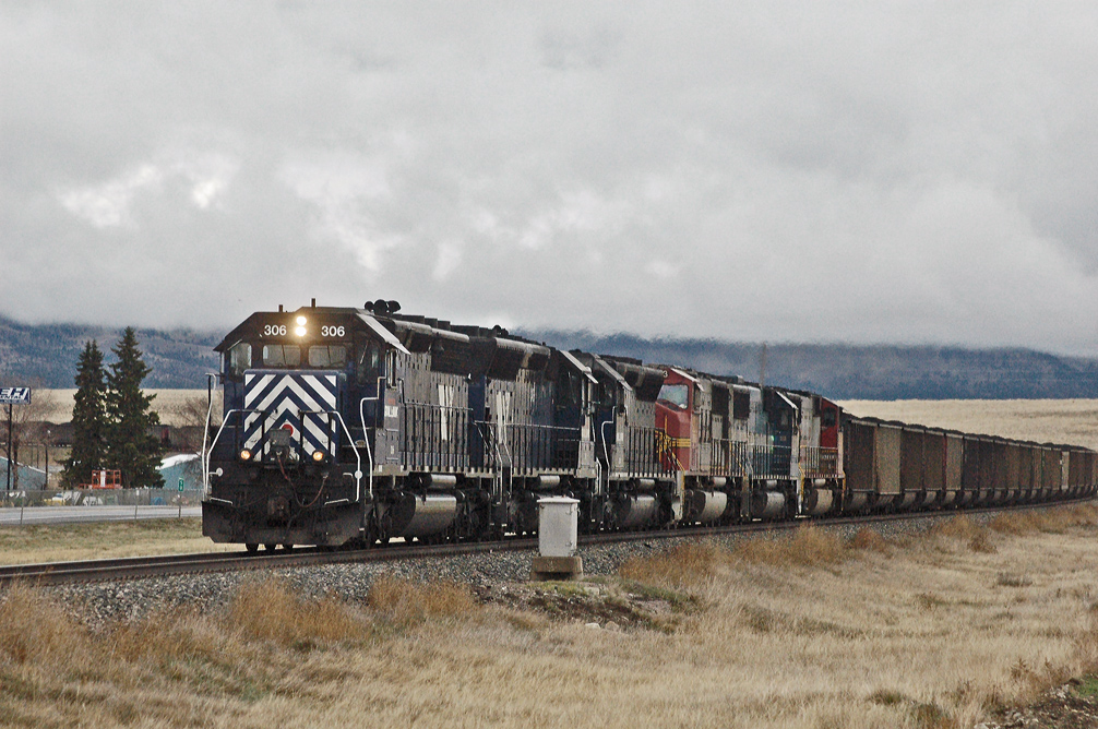 4 23 05 020East HelenaxRP